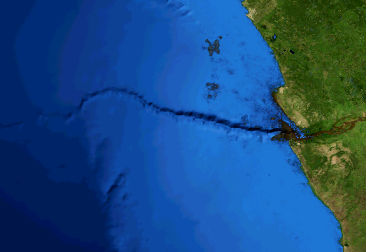 Screen capture from NASA WorldWind software of the Congo submarine canyon offshore southwest Africa, showing about 300 km of the canyon